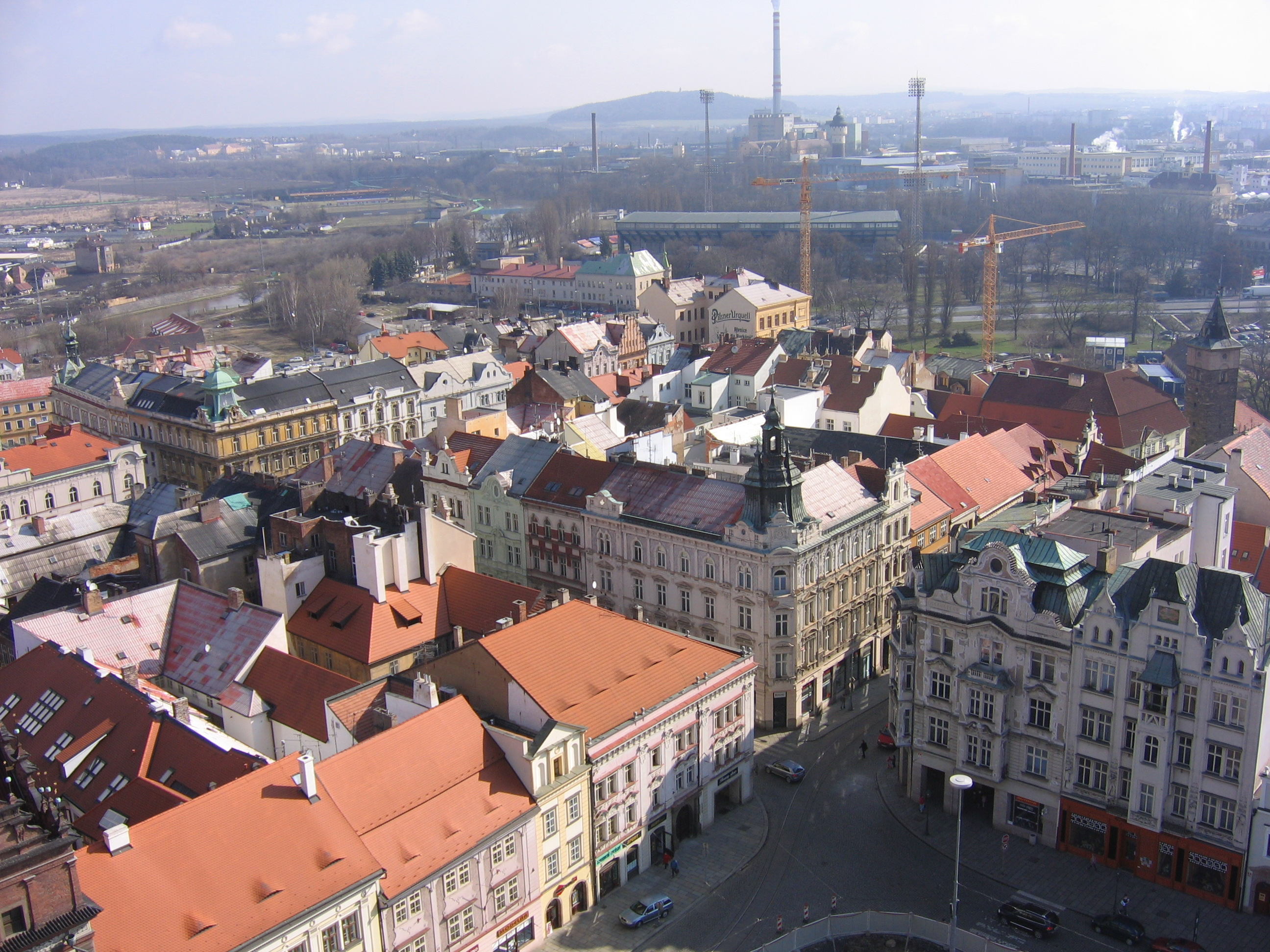 City of Plzeň, Czech Republic. Pilsen, Tschechien. View from the tower of the St. Bartholomew Church at the main square "Namesti Republiky".